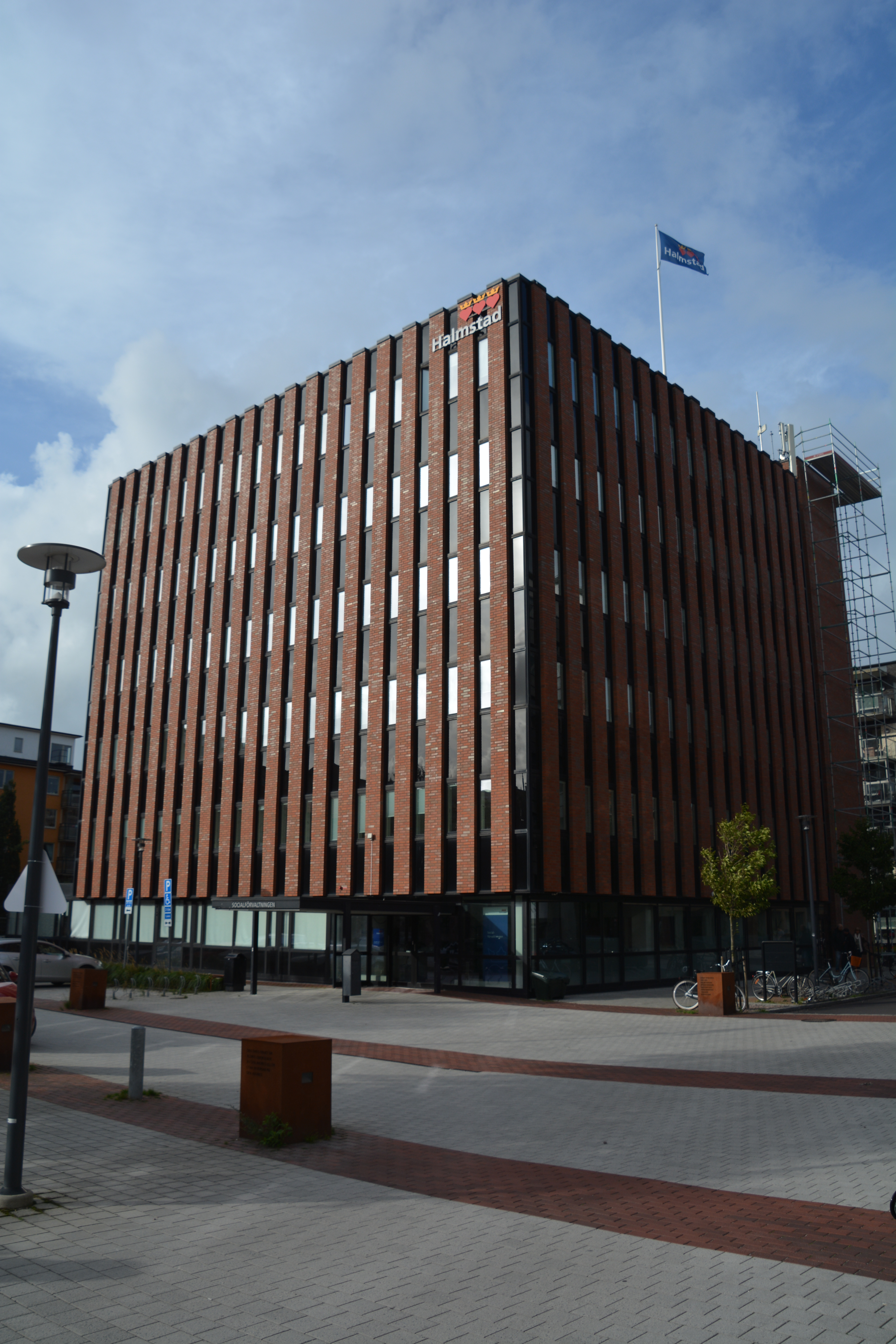 Nordiskafilts nyare kontor, vid nuvarande Ernst Wigforss plats i Halmstad